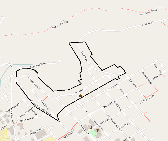 Map showing the boundaries of the Chicken Ridge Historic District in Juneau, Alaska, United States. The historic district is listed on the National Register of Historic Places. Boundaries are derived from the map attached to the district's National Register nomination form.